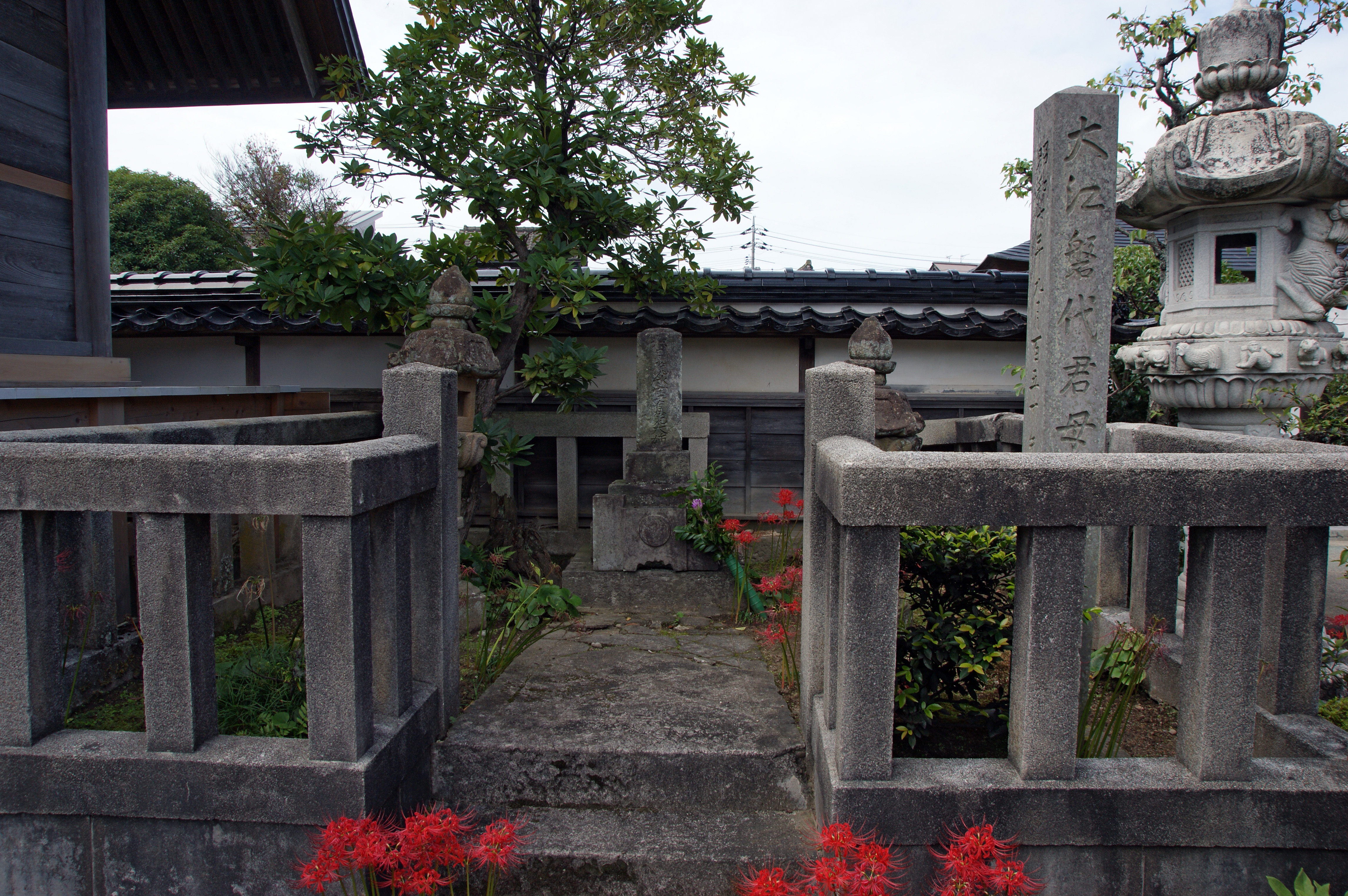 Daigakuin in Kurayoshi, Tottori prefecture, Japan